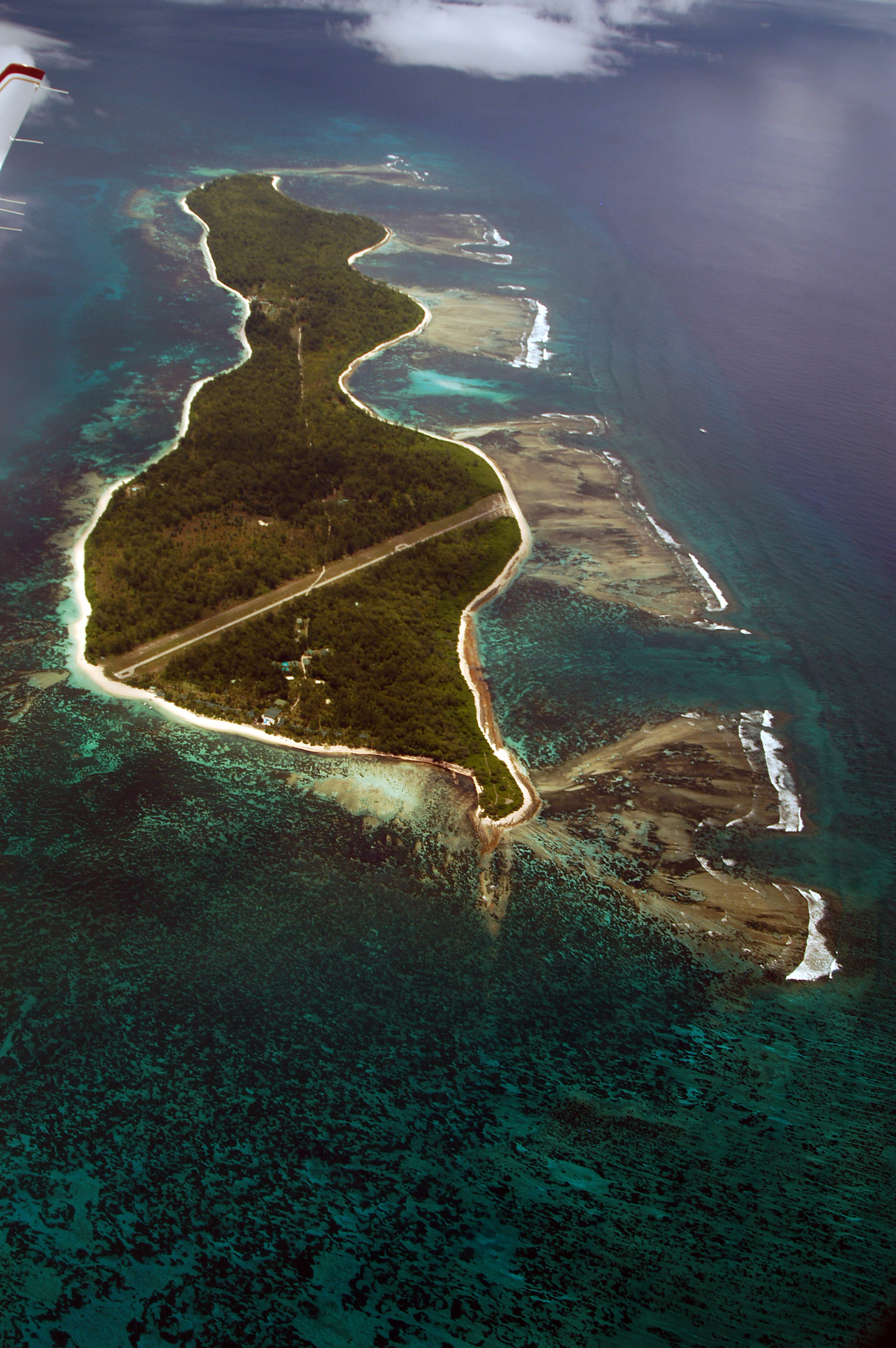 Aerial view of Desroches Island from the southwest, Amirantes, Outer Islands of the Seychelles